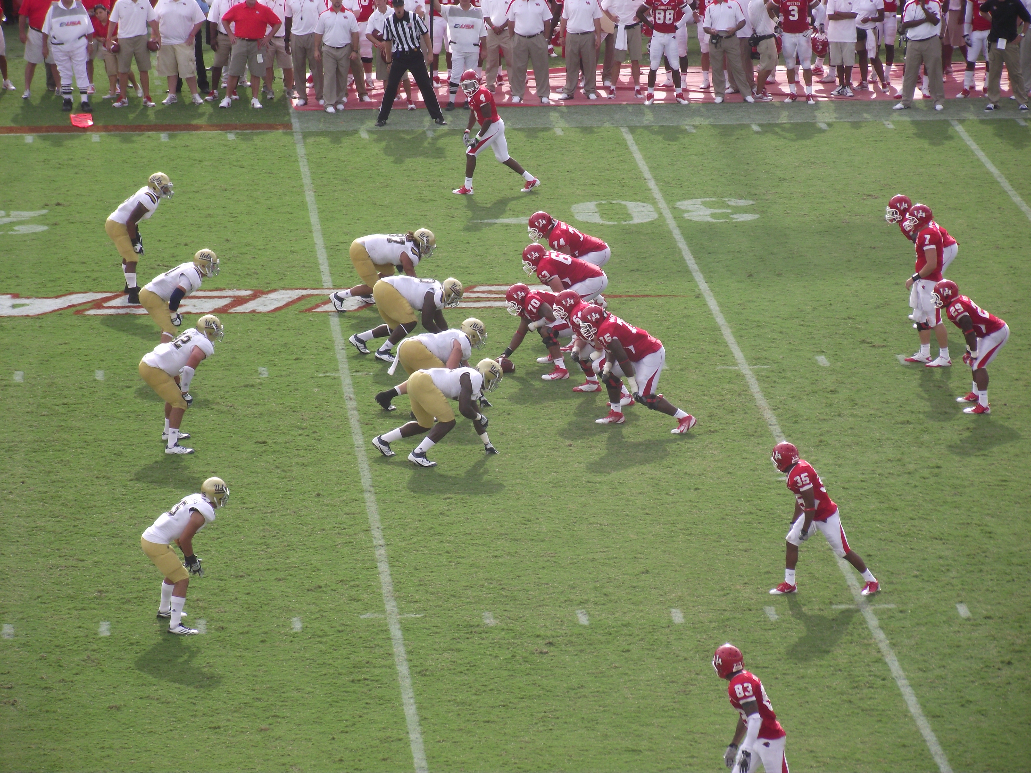 The 2011 Houston Cougars football team offense competing against the UCLA Bruins defense.